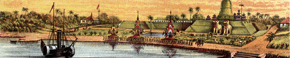 Artist rendition of Bassein (now Pathein) shoreline in the late 1800s (Burma).